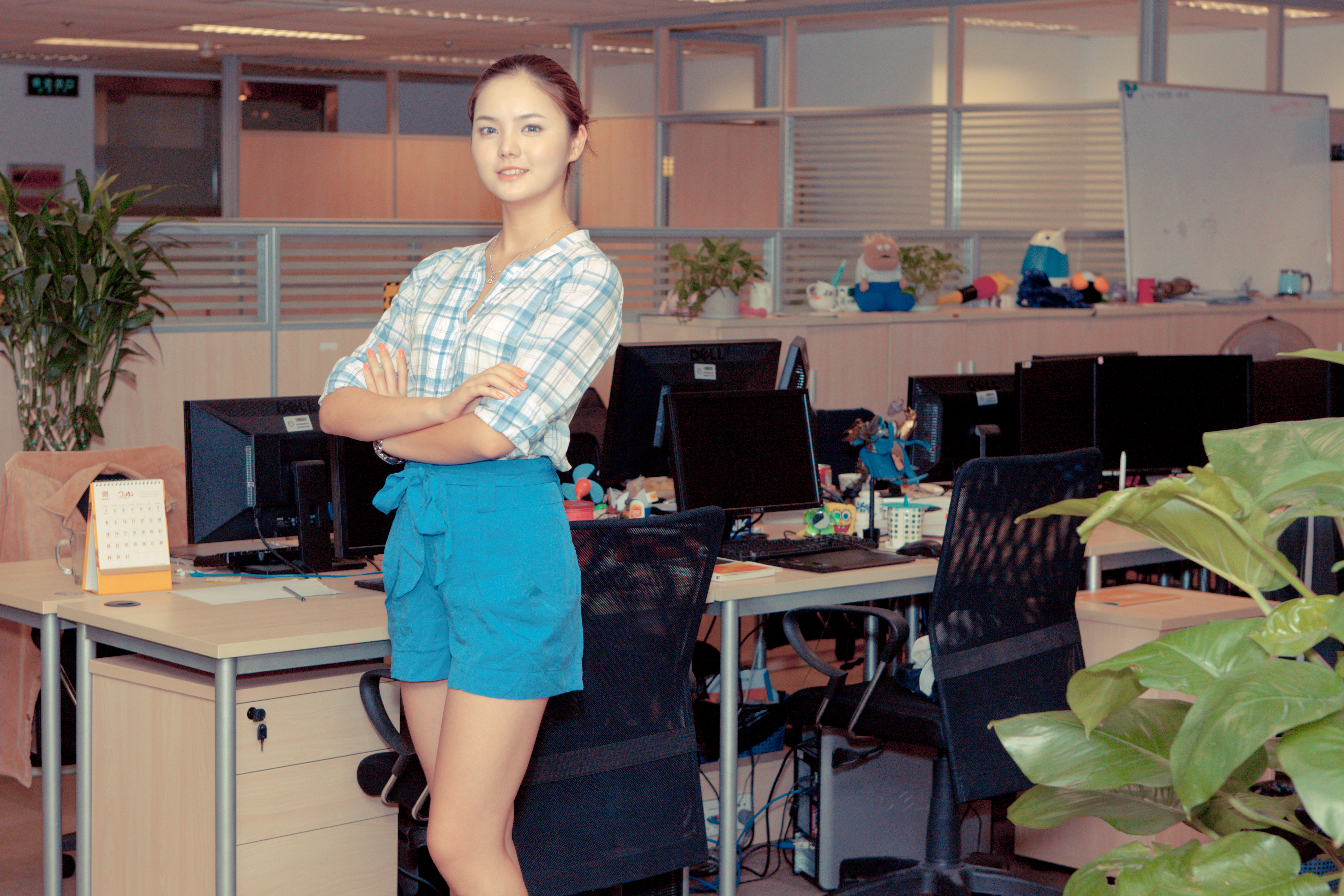 One of my commercial shoots: Photos featuring Chinese models as wallpapers. Those were downloadable on a Philips microsite. It was for the launch of a new "3D Shaver". The idea was to show four different women: A model, an artist, a office worker and an CEO. This photo was not one of the final 3 that were offered as a wallpaper.